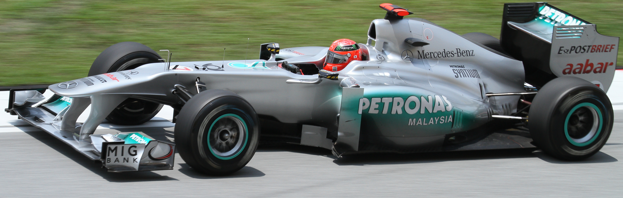 Formula One 2011 Rd.2 Malaysian GP: Michael Schumacher (Mercedes) during the second practice session on Friday.